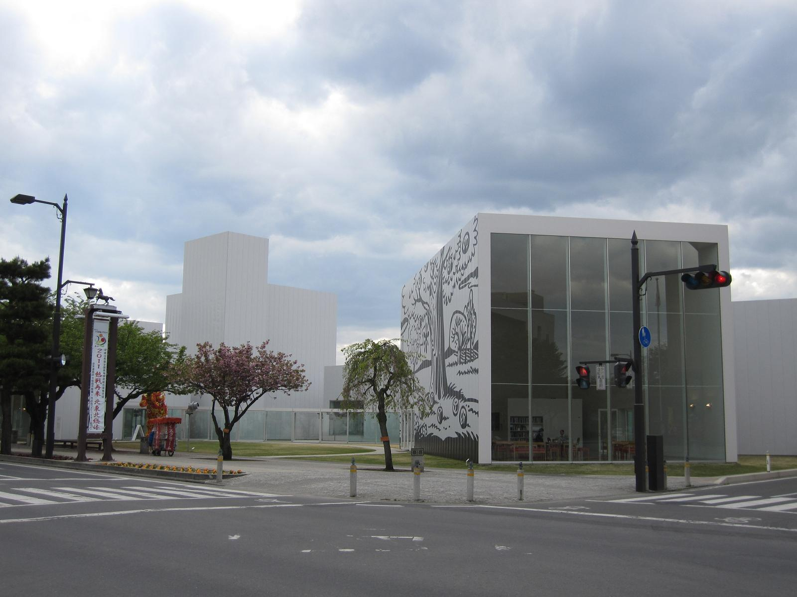 Towada Art Center, contemporary art museum in Towada, Aomori prefecture, Japan.